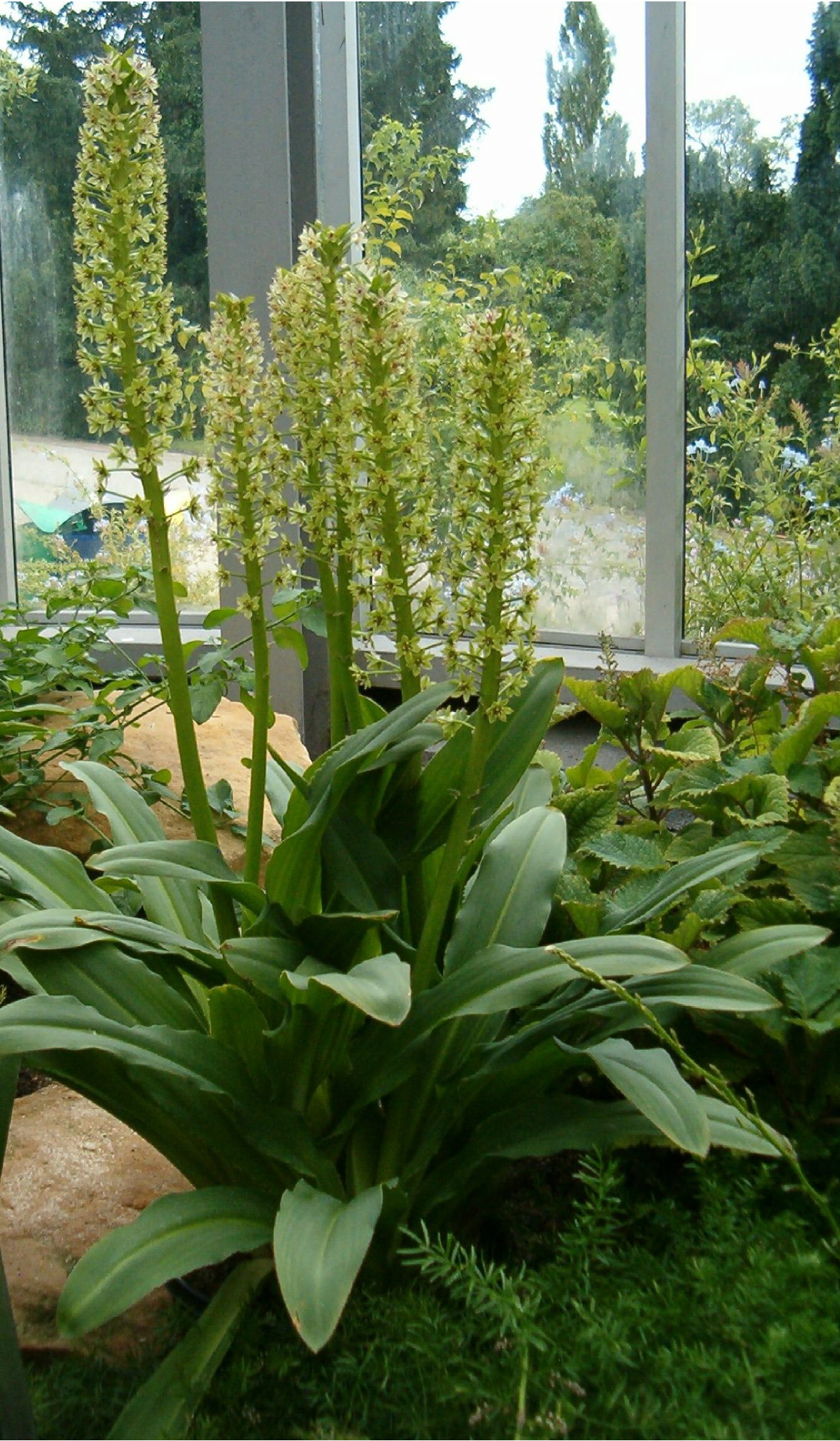 Eucomis pallidiflora Location: Botanical Gardens Berlin Habitus and Inflorescence